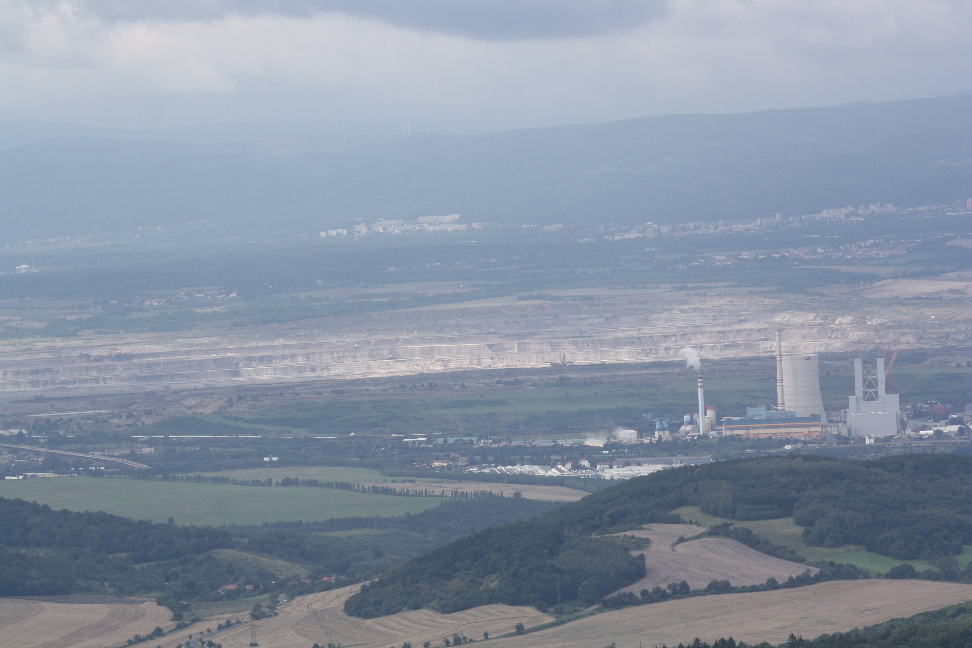 Ledvice power plant, Bilina cola mines and Ore Mountains as seen from Milešovka Hill, České středohoří, Czech Republic.